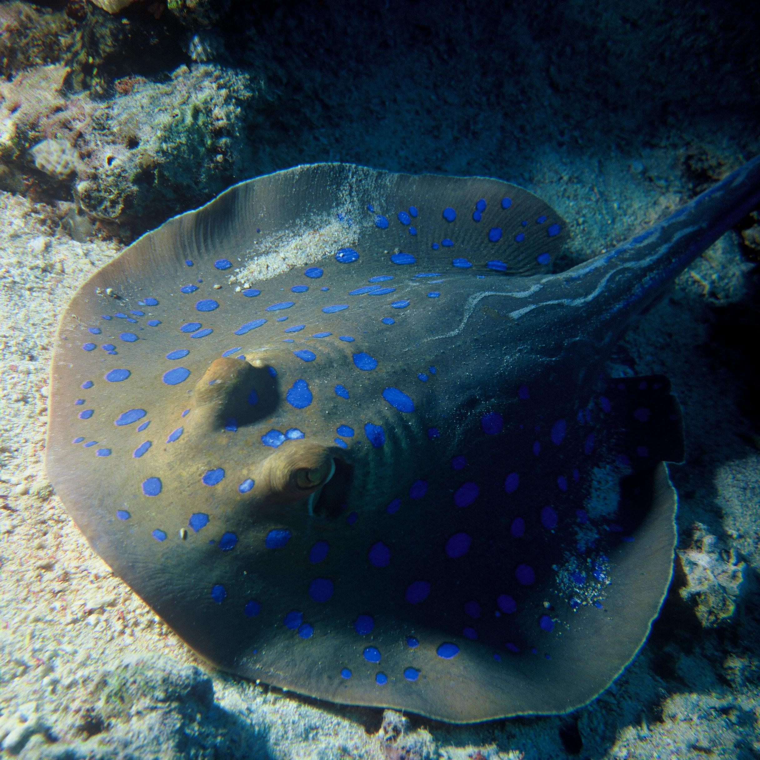 Description Blue spotted ray Date1988SourceRed SeaAuthorAlbert KokPermission (Reusing this file) Public Domain Blue spotted ray